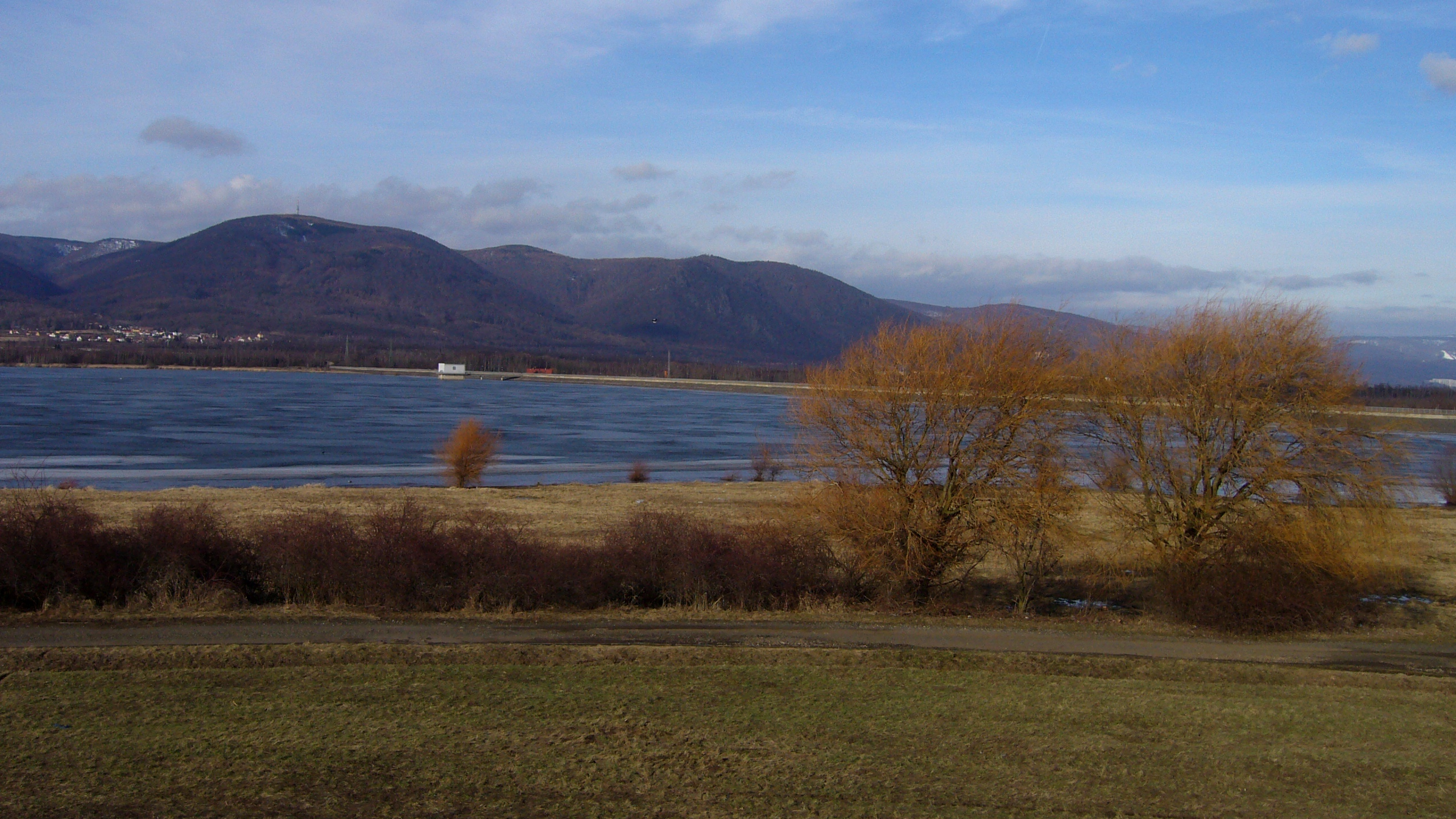 Újezd Dam